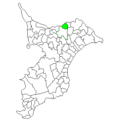 Location Map of former Shimofusa Town, Chiba Prefecture, Japan, now part of Narita City.